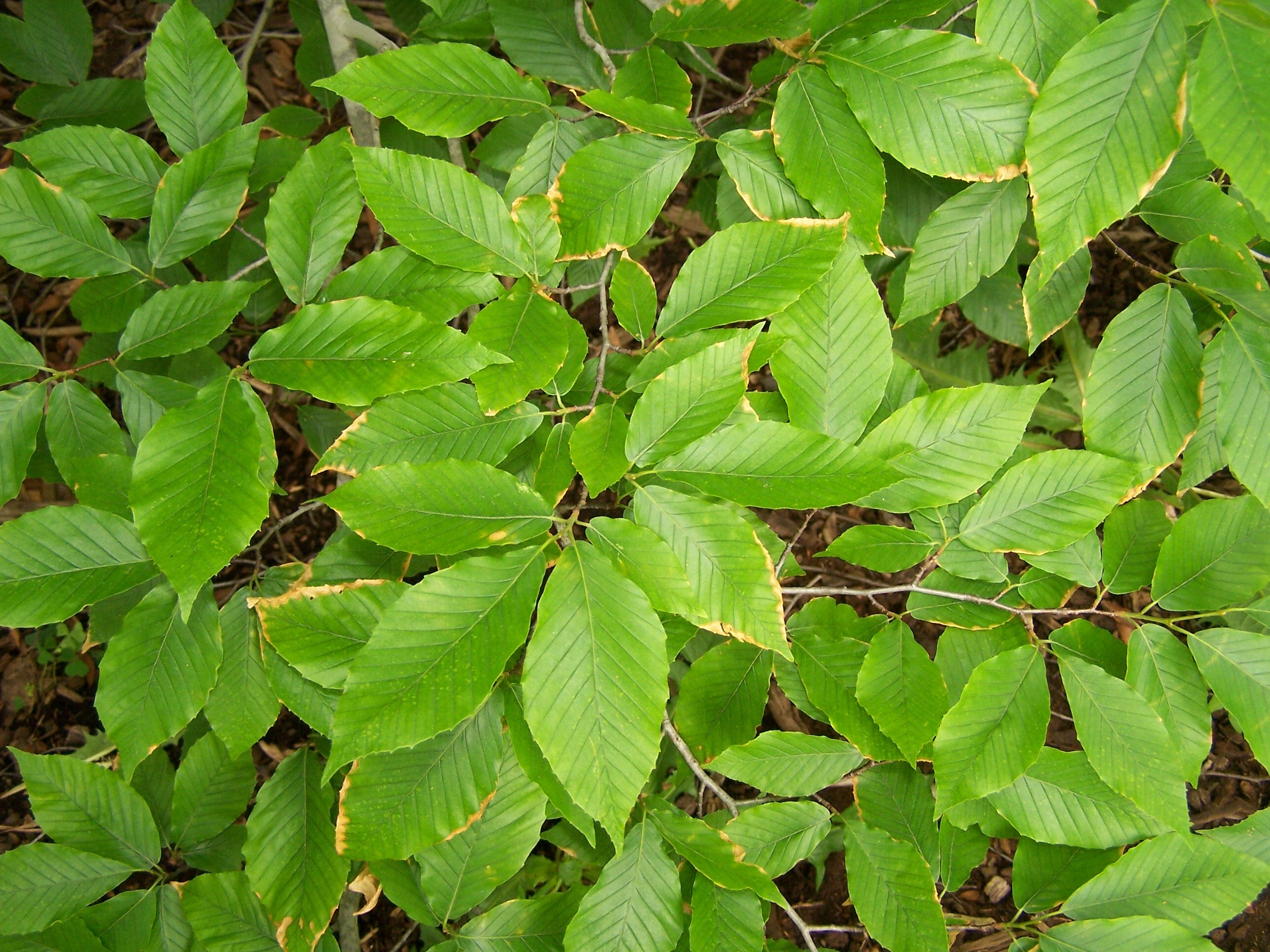 Foliage, American Beech Tree - Fagus grandifolia. Specimen tree at Morton Arboretum, Lisle, Illinois, USA.